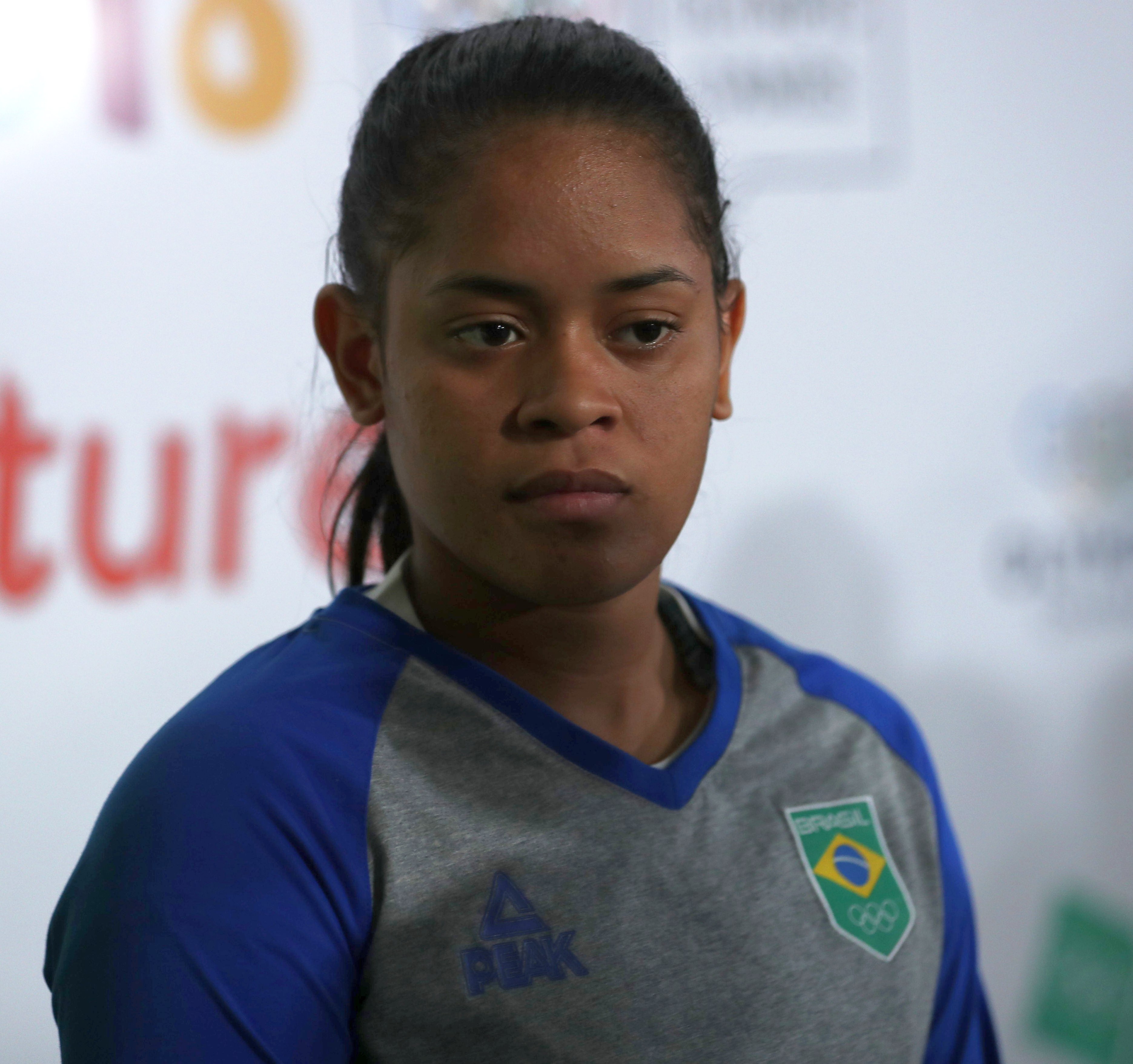 Bronze medal match at the Badminton Mixed International Team competition